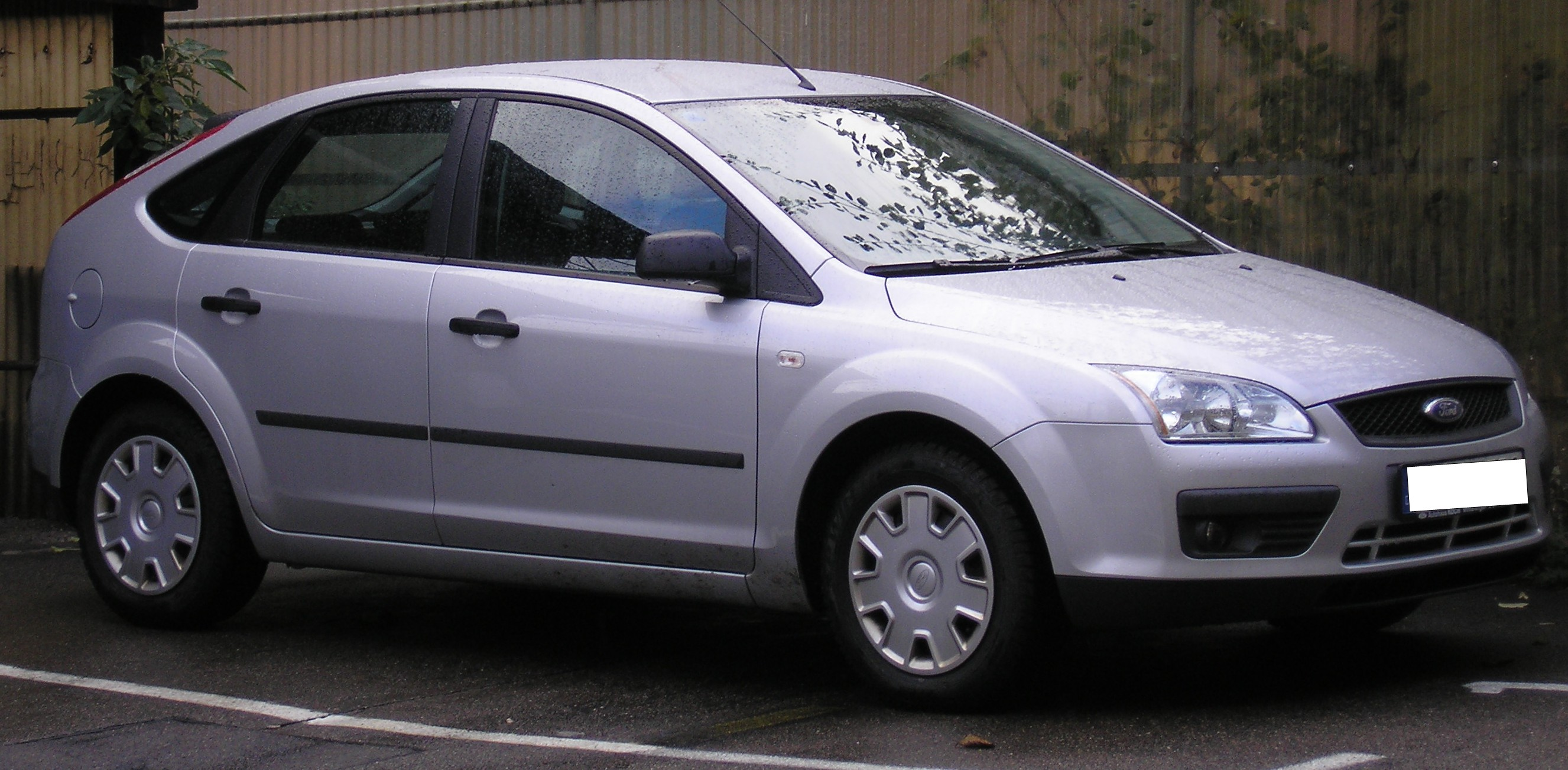 Ford Focus 2nd generation, Euro version